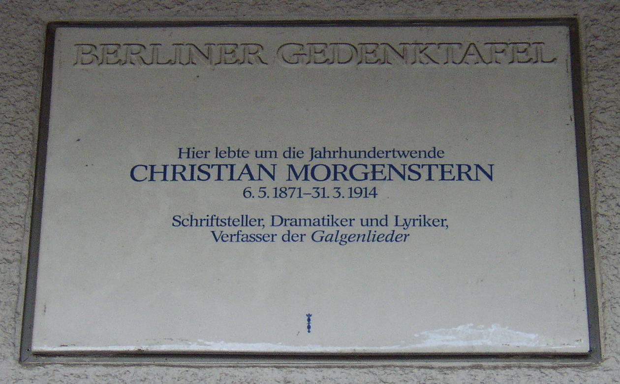 Berlin memorial plaque for Christian Morgenstern in Berlin-Charlottenburg, Germany